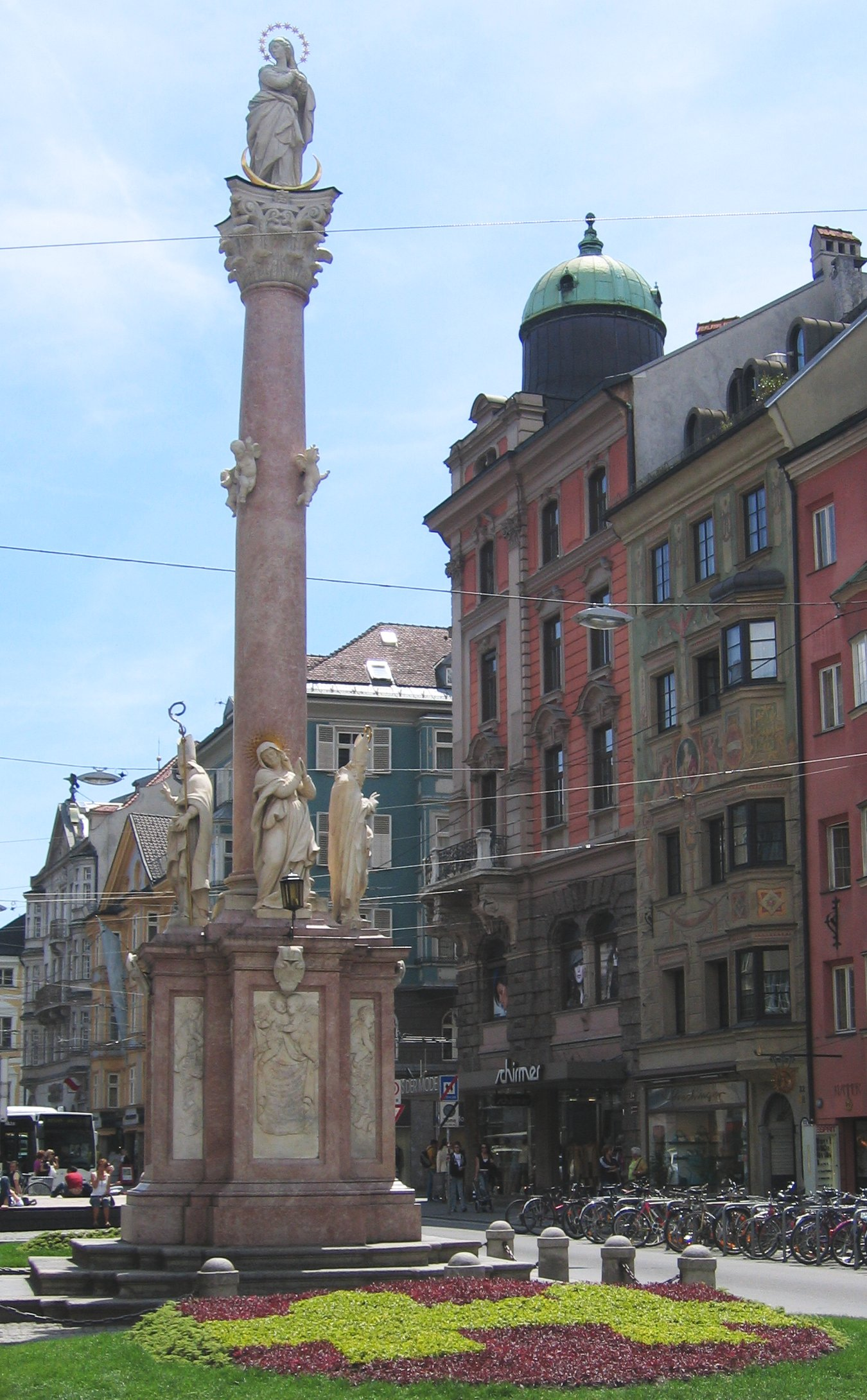 Anna Column, Innsbruck, Austria